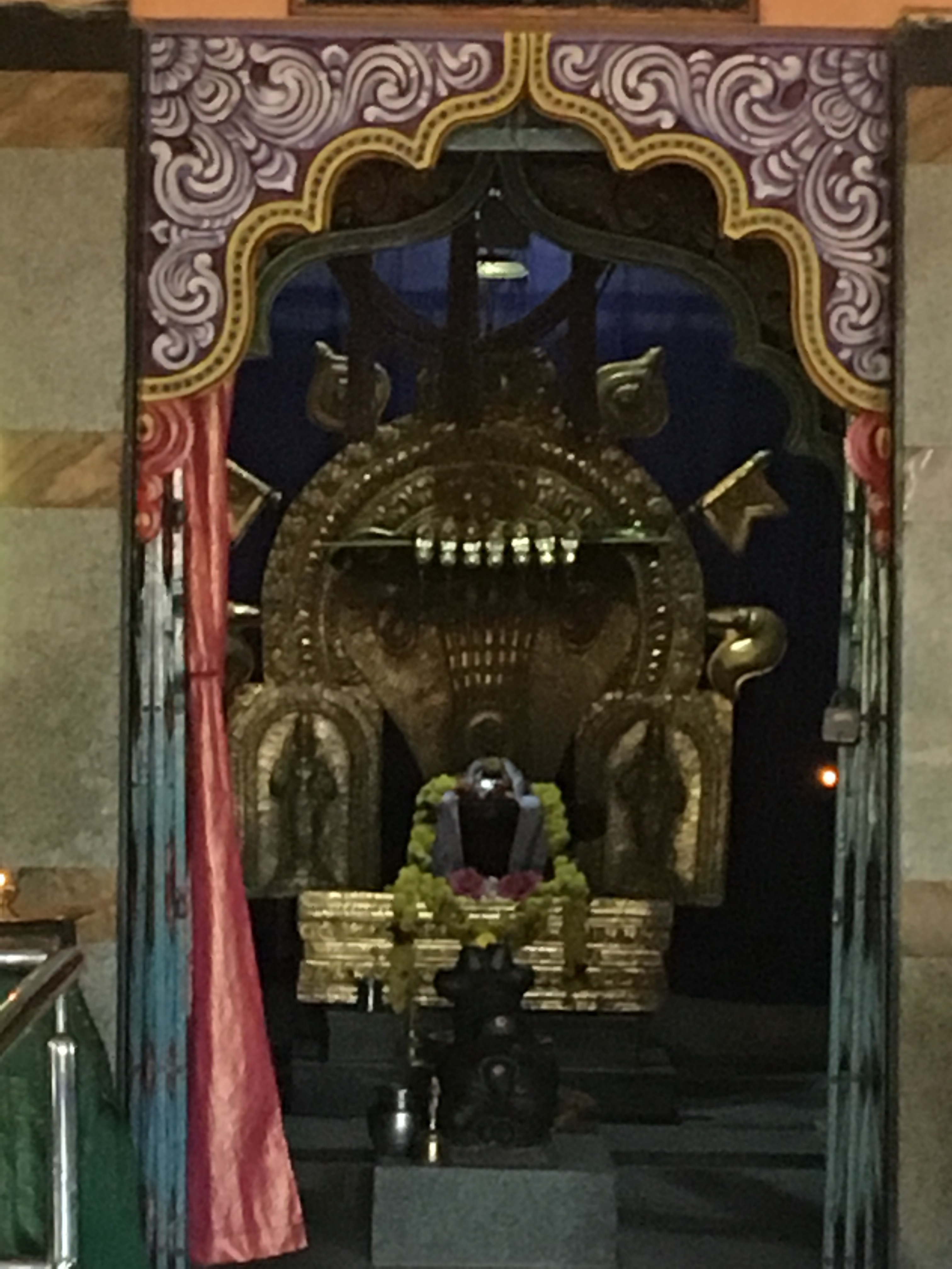 Lord Prasanna Nanjundeshwara